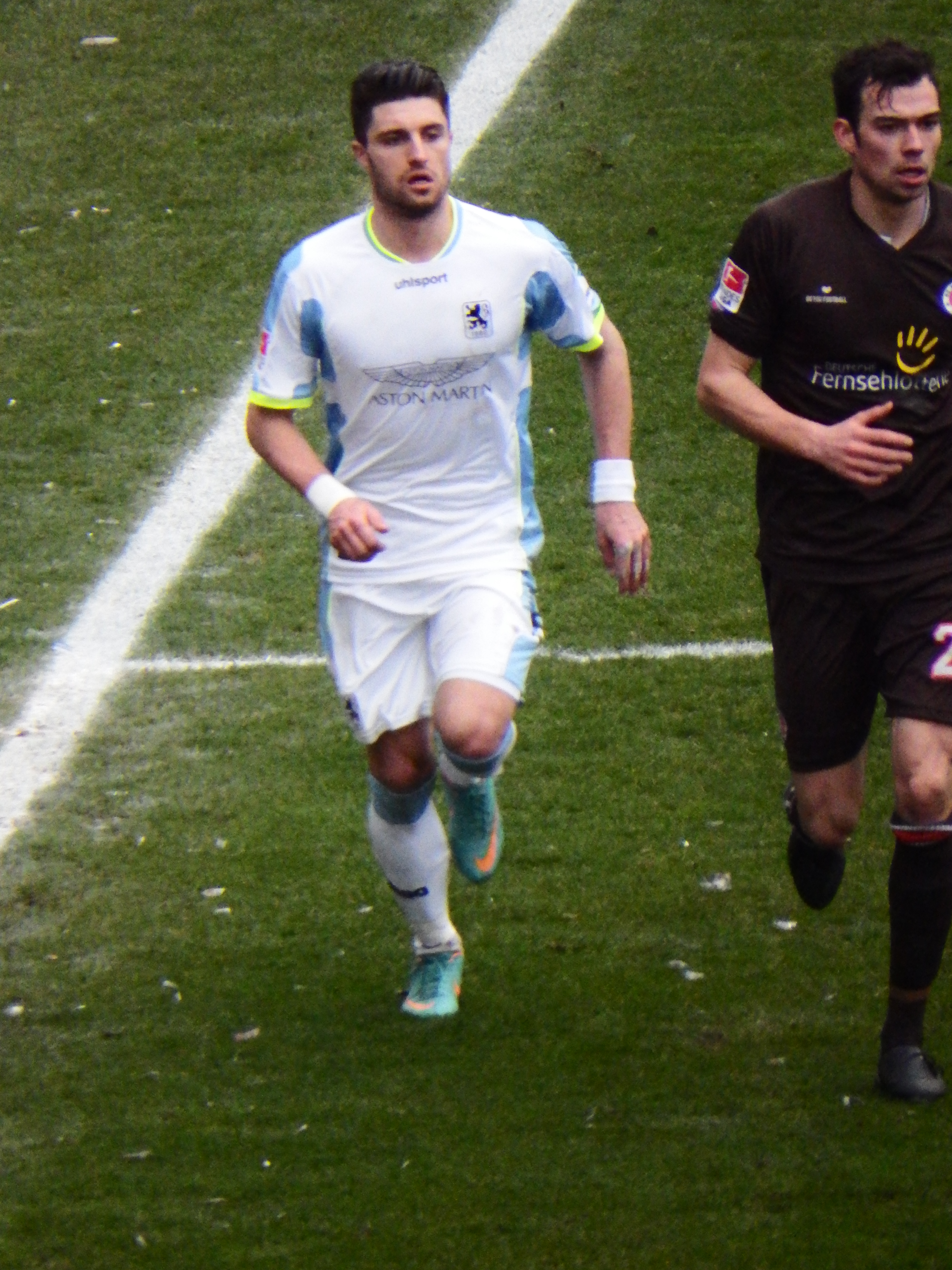 Moritz Stoppelkamp as Player of TSV 1860 München